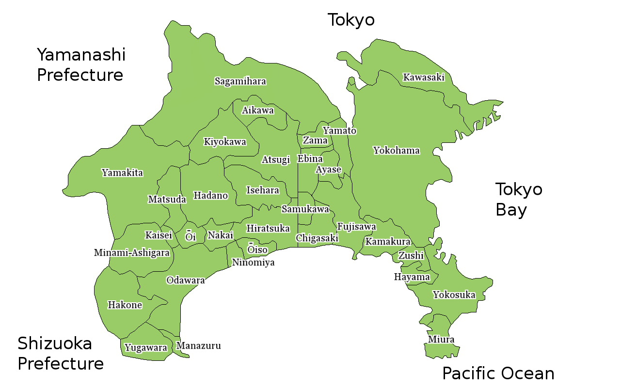 Map of Kanagawa Prefecture, Japan. Thanks to Aoki Shigenobu and [1]. Colors from Image:TokyoMapCurrent.png by User:Fg2.